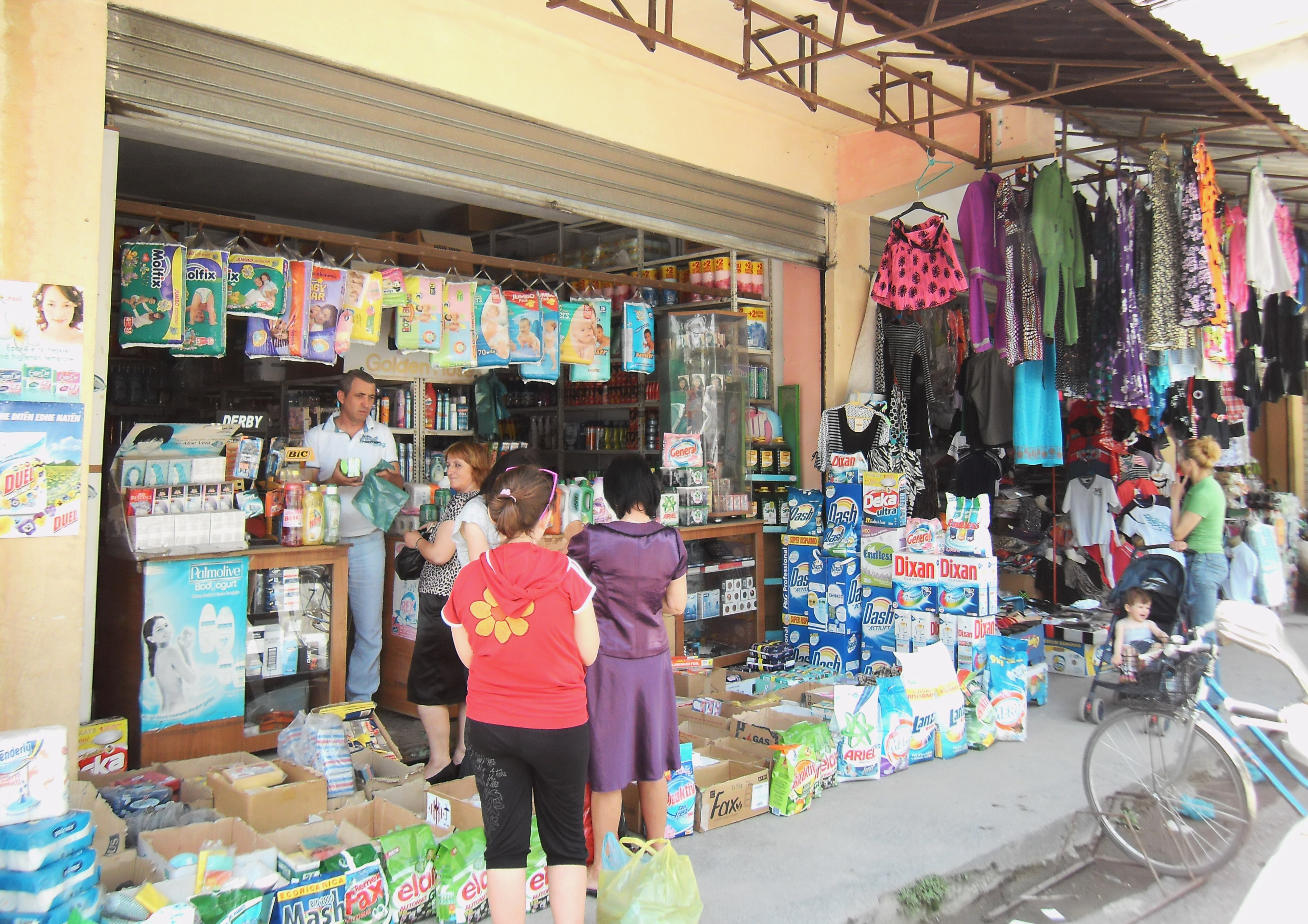 Shop in Shkodra, Albania